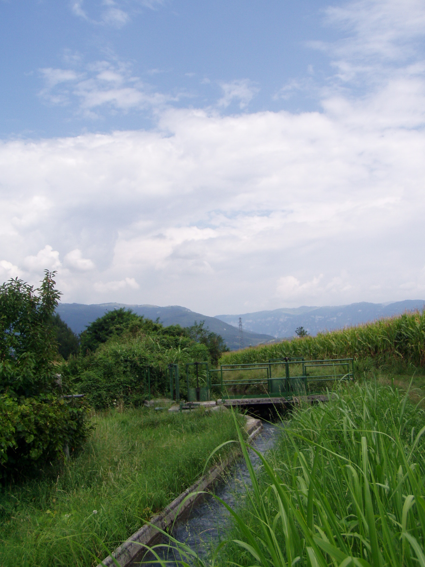 A "rosta" (Venetian for irrigation ditch) flowing in Parco delle Rogge rural Park, Bassano del Grappa. In the background, the Asiago plateau or "Sette Comuni" plateau (on the left) and Grappa mountain (on the right)